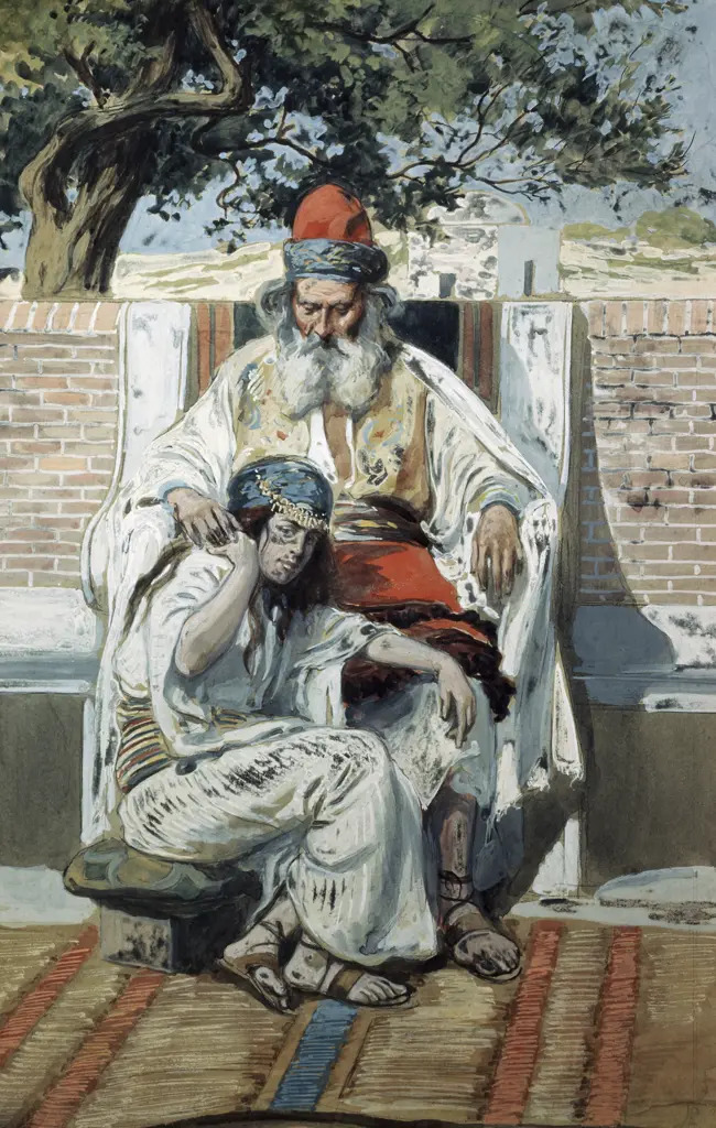 This painting shows a seated King David with Abishag sitting at his feet.